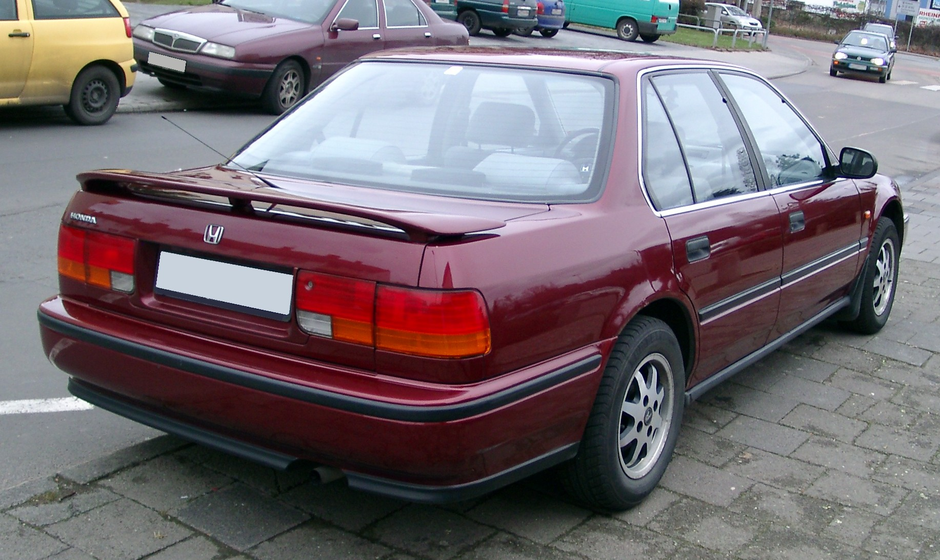 Honda Accord, 4. Generation